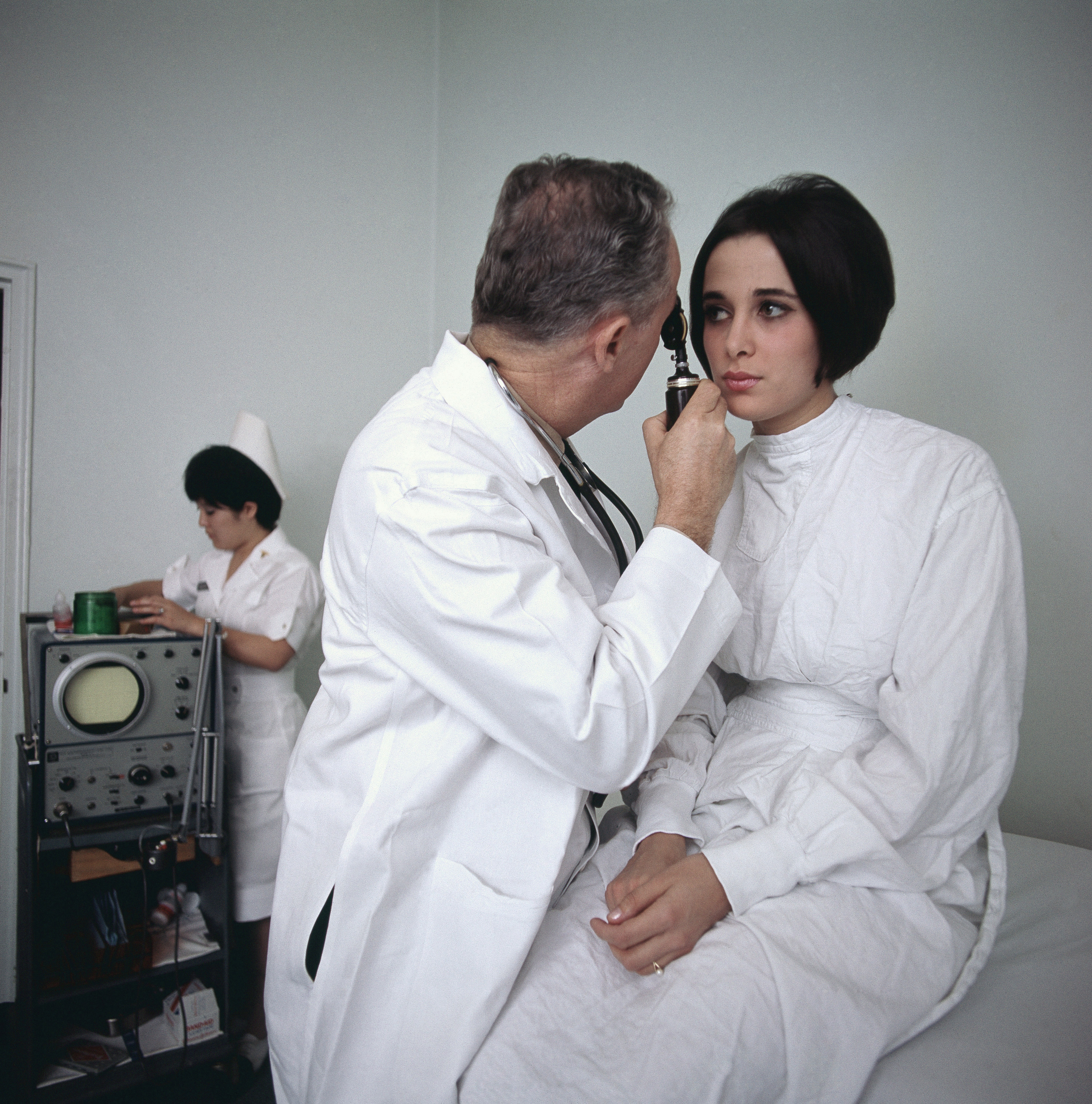 A doctor examines a female patient.